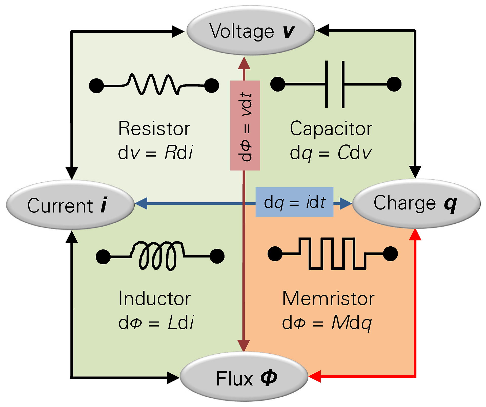 The memristor and its relation with the four fundamental electric variables